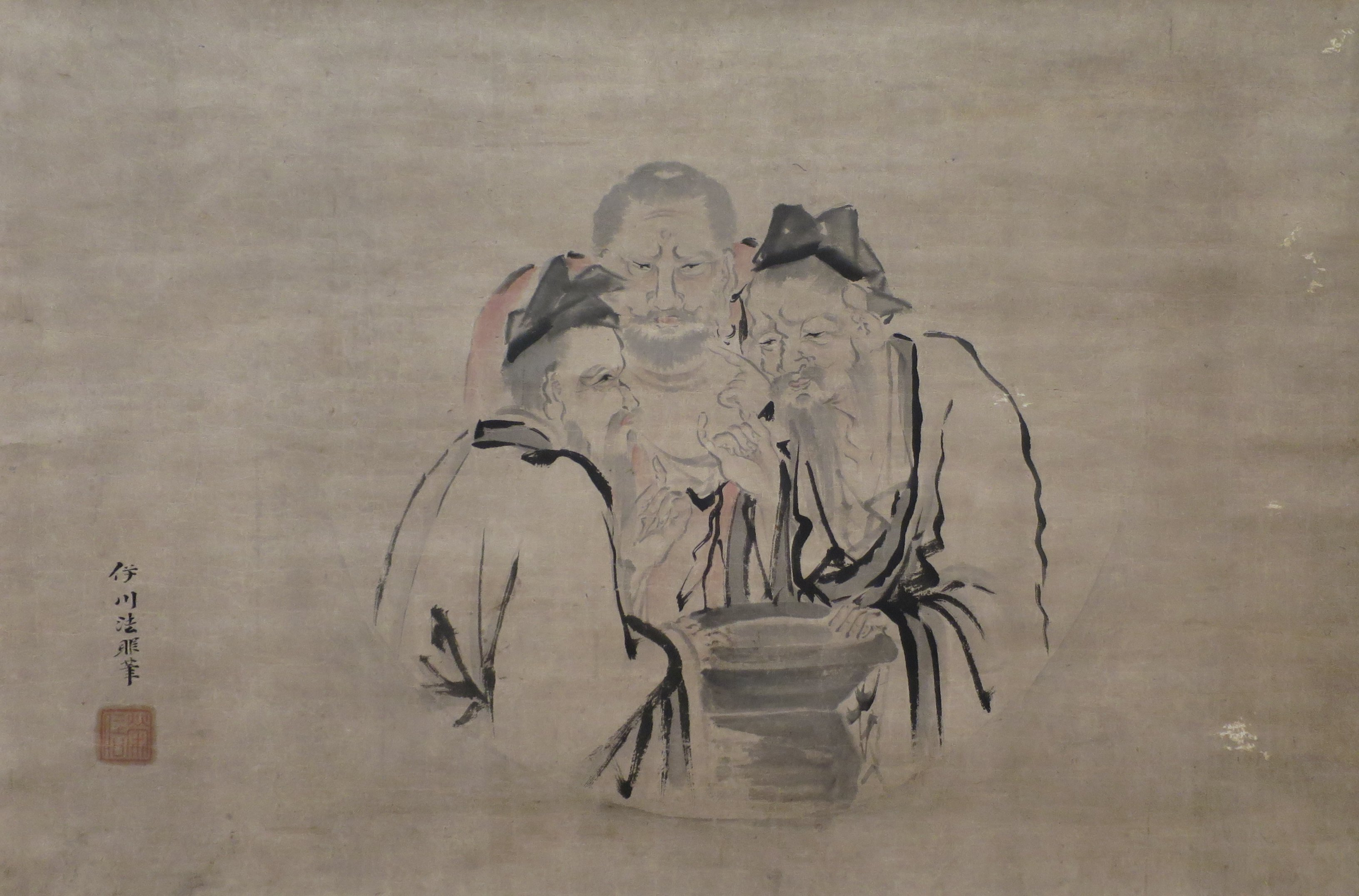 'The Three Vinegar Tasters' by Kanō Isen'in, Edo period, c. 1802-1816, ink and color on paper, Honolulu Museum of Art, accession 6156.1